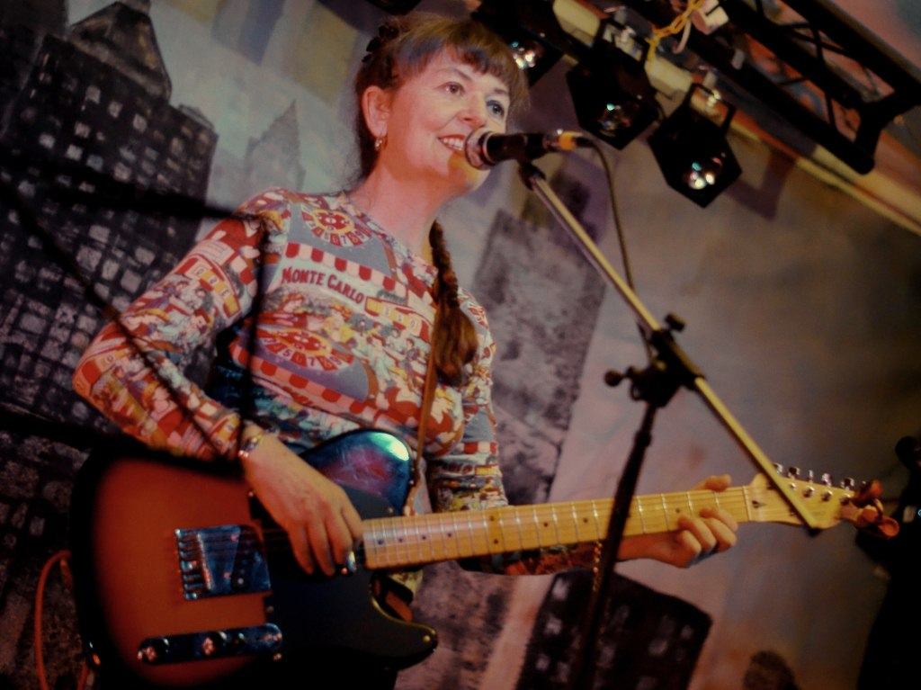 Helen McCookerybook performing at Celebrating Sisterhood!, The Verge at The Cheshire Ring, on Saturday the 24th of March 2012.